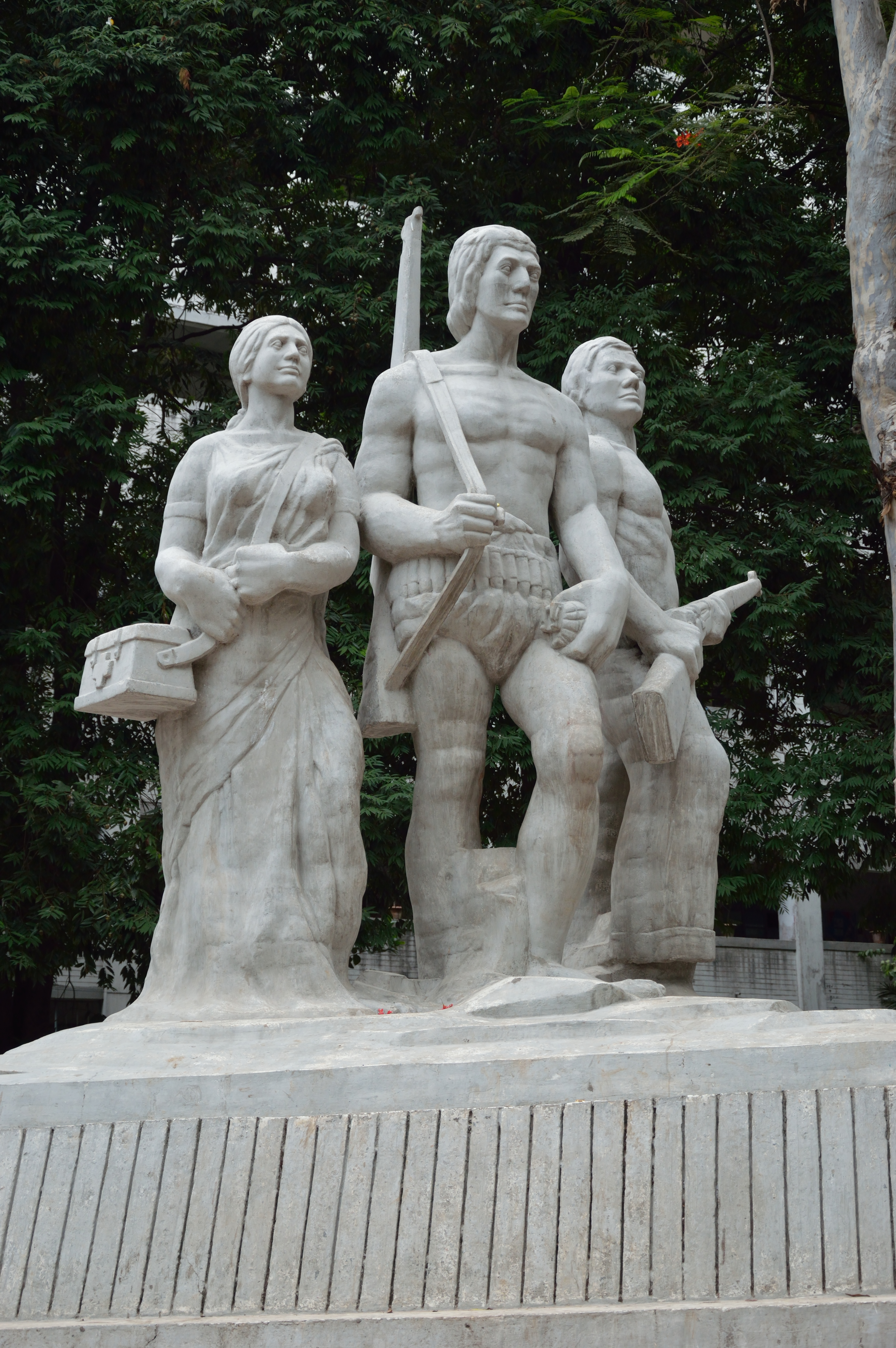 Photographed in Dhaka, Bangladesh.